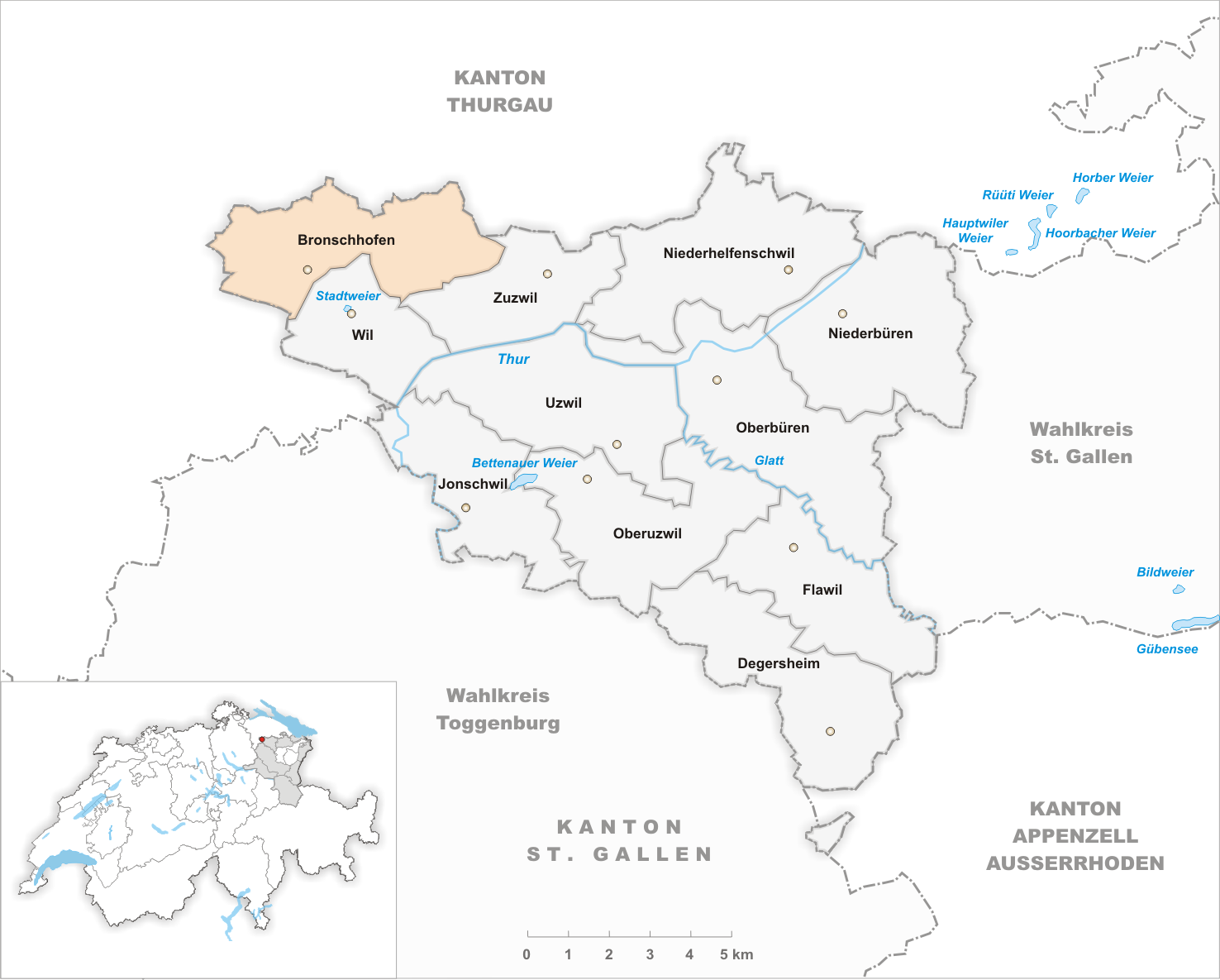 Municipality Bronschhofen